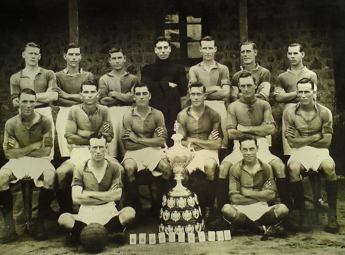 Photograph of the players of the 2nd Battalion Middlesex Regiment (D.C.O) winning the Rovers Cup in India 1926 Original caption: 2nd Nattn:: The Middlesex Regt: (D.C.O) Winners of the Rovers Cup; 1924-25-26 (L-R Top) Bacon, Stone, Budd, Lincoln, Dick Glew, Butterfield, Rowe (L-R Middle) Bugden, Arnold, Neighbour, Captel (Captain), Palmer, Mackie (L-R Bottom) Hewett, The Rovers Cup, Loom